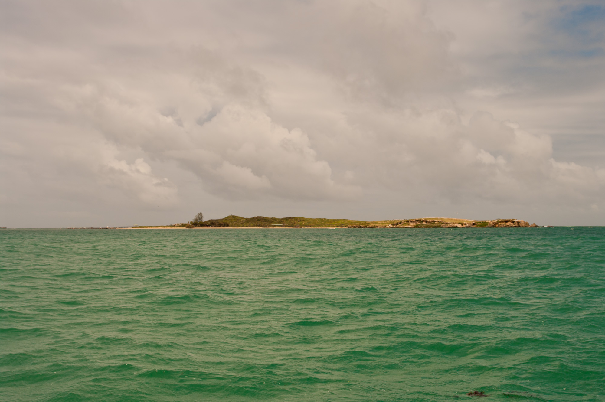 Penguin Island